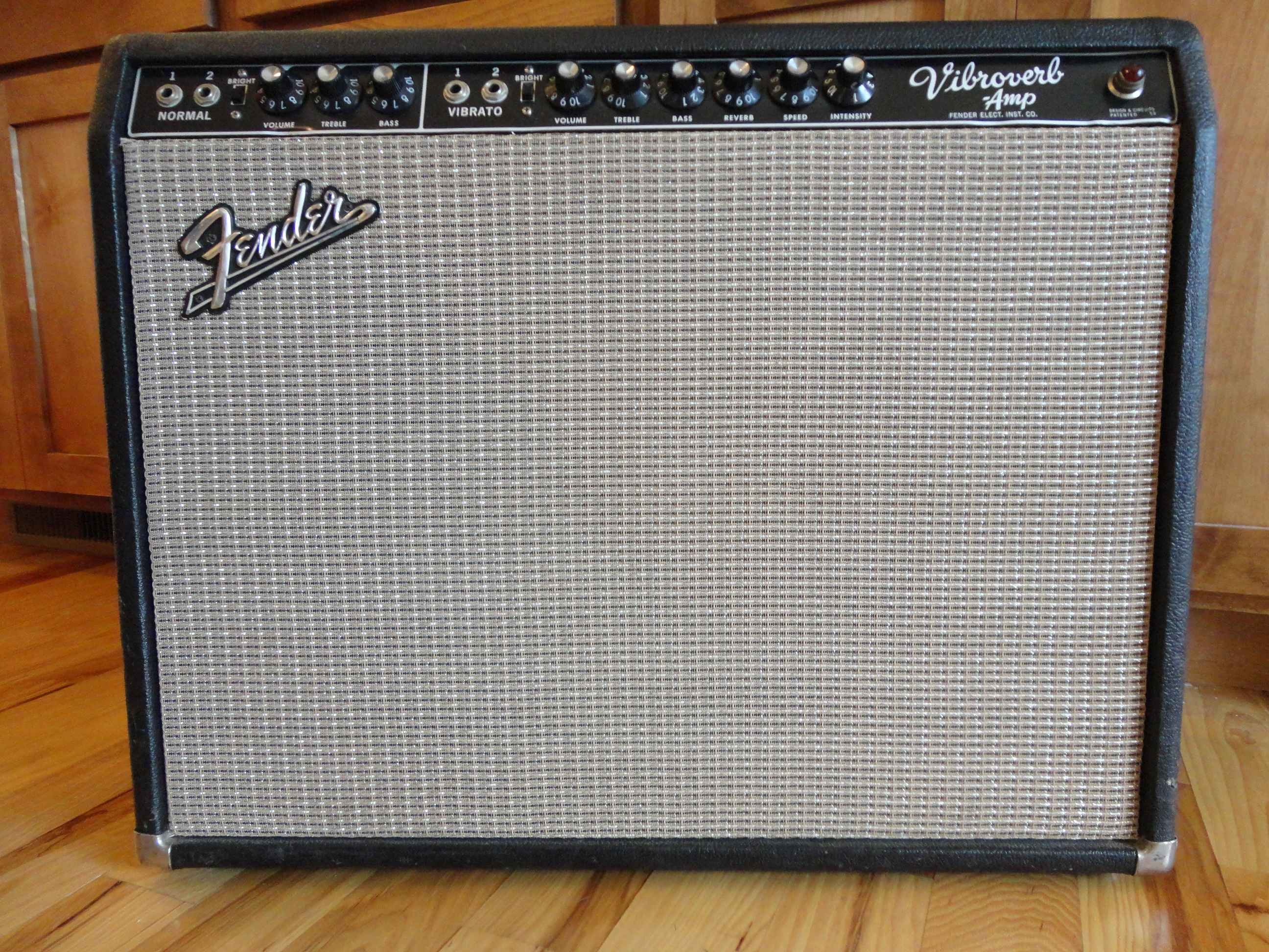 An image of a 1964 Fender Vibroverb.